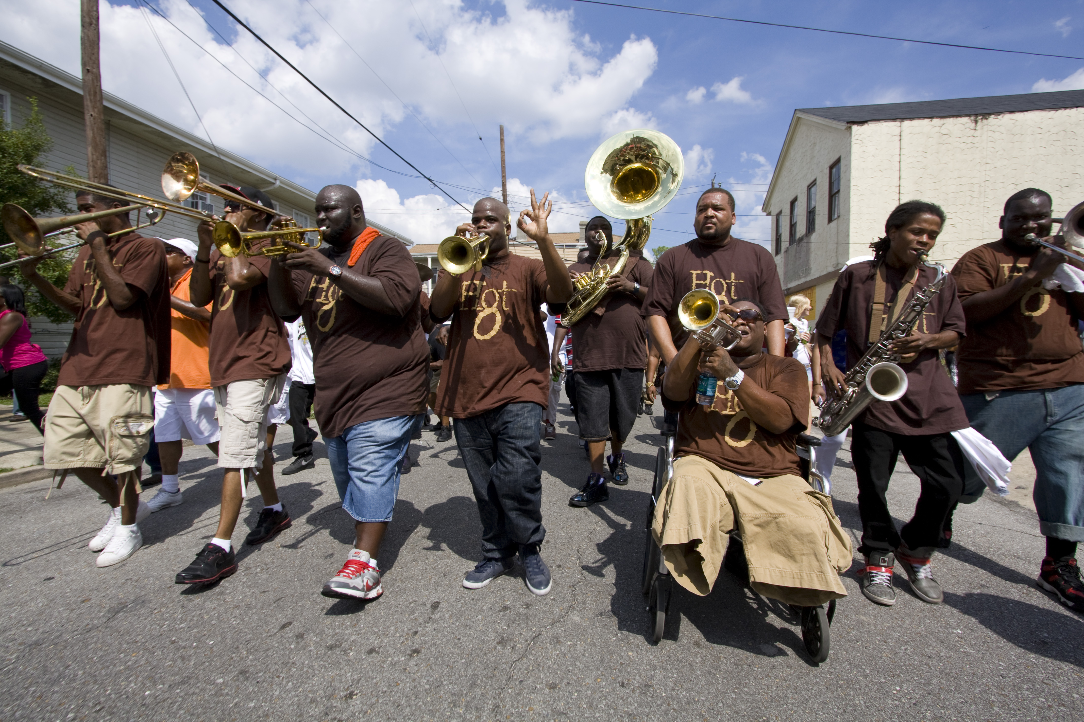 Hot 8 @ Young Men Olympian Jr 127th Annual Parade, New Orleans